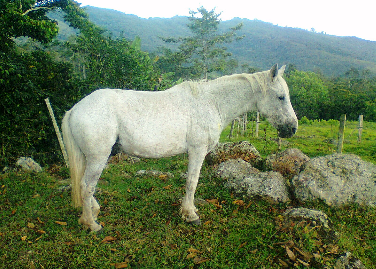 a white horse